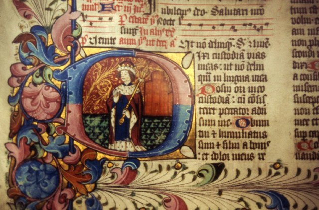 The Ranworth Antiphoner. Detail from a page of the Ranworth Antiphoner, a 15th century illuminated songbook in Ranworth Church. See also 84755